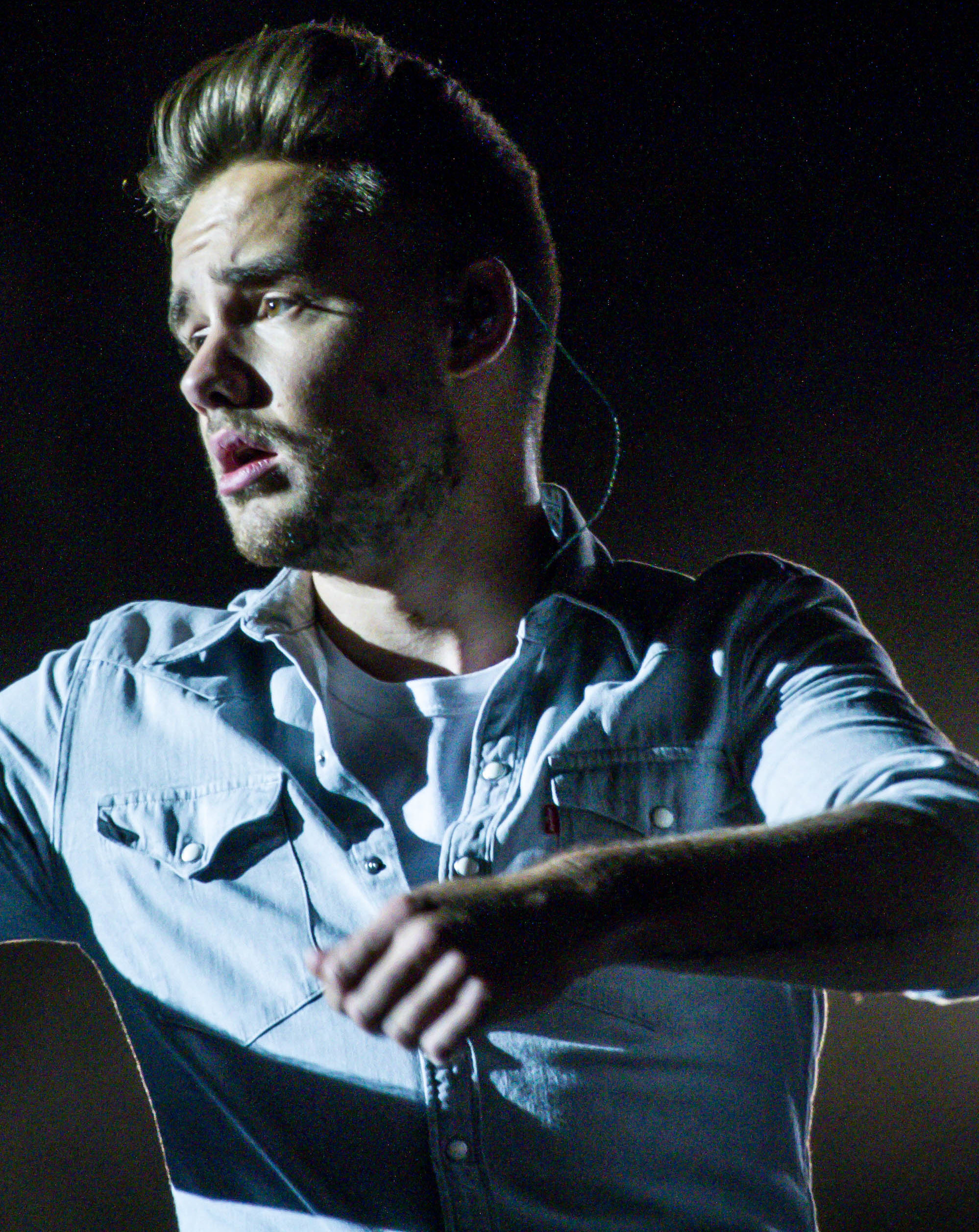 One Direction August 23, 2015 Soldier Field Chicago, IL